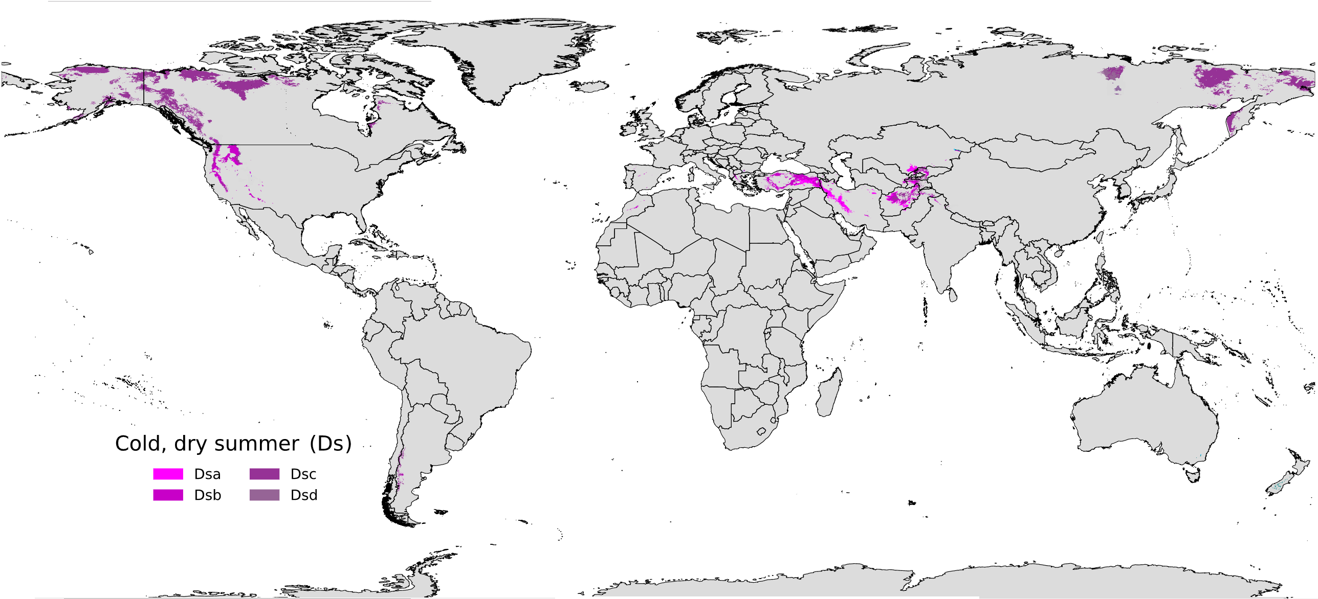 Köppen–Geiger climate classification map for Mediterranean-influenced continental climate (Ds), 1980-2016.